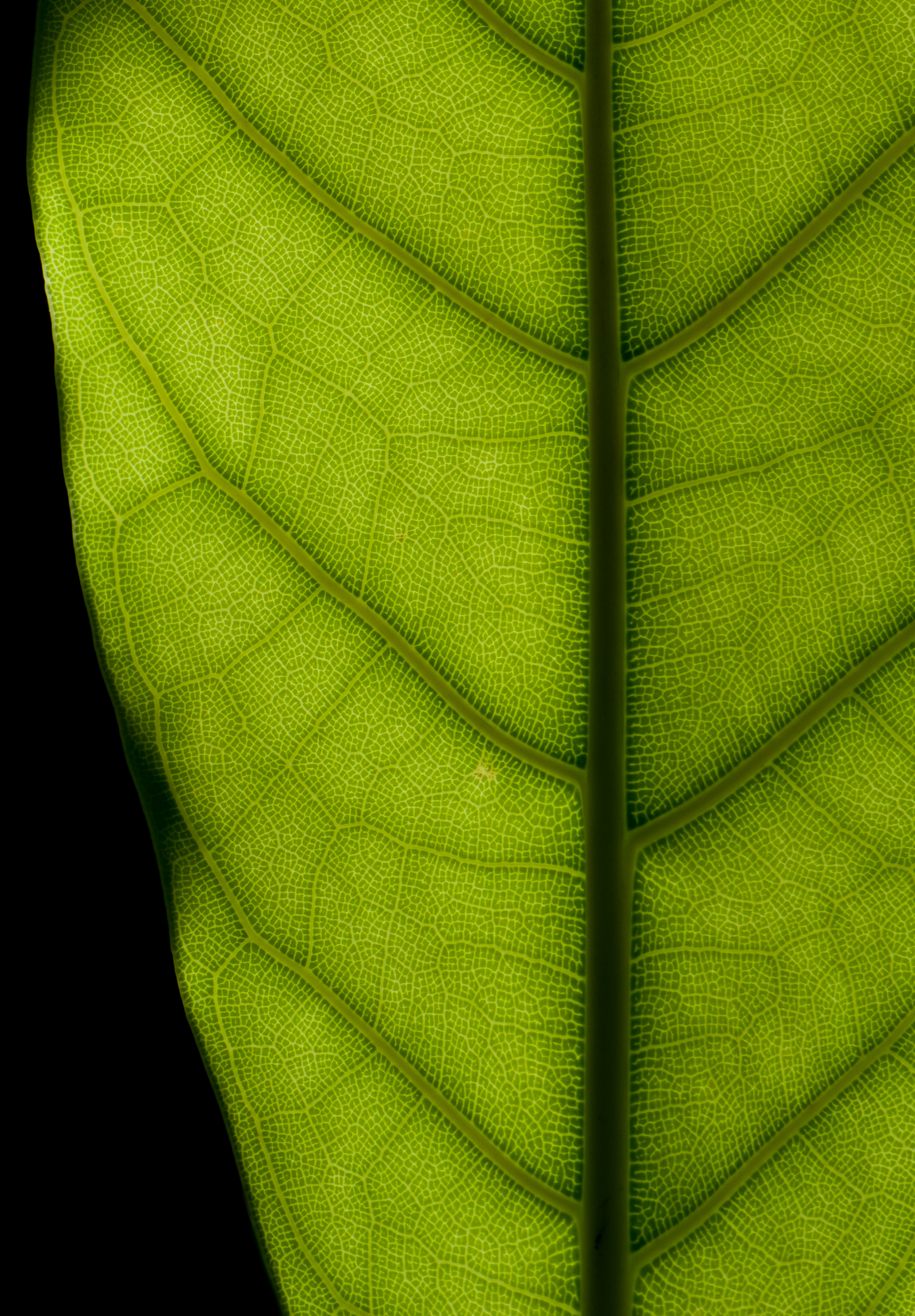 Texture of a young backlit leaf of a Ficus elastica plant.